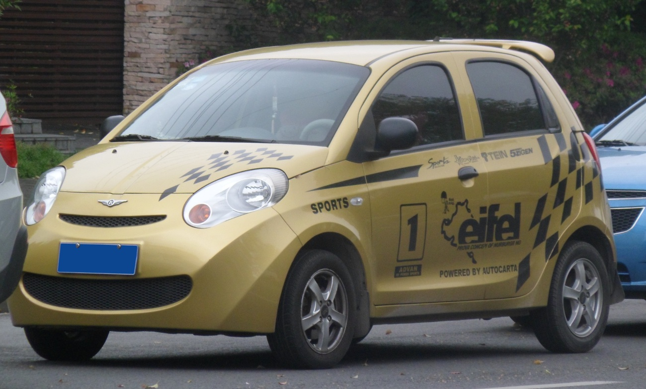 Riich M1 photographed in Shanghai, China.